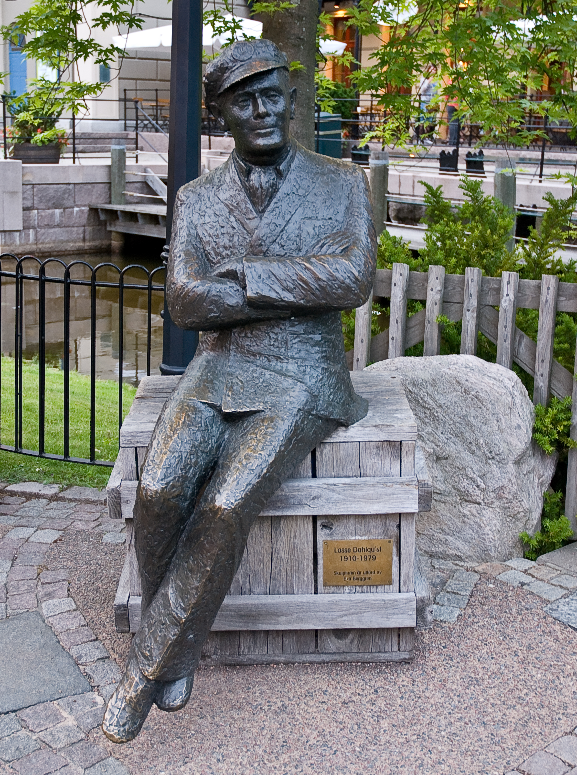 Sculpture of Swedish actor and songwriter Lasse Dahlquist.